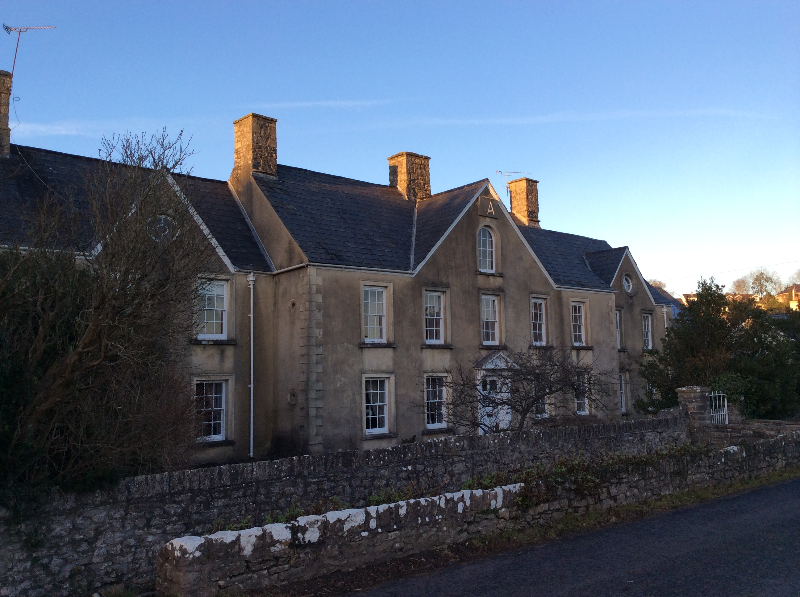 The Great House on Bridge Road, Llanblethian, Wales